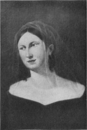 Portrait of Justine von Rauch bron Riesenkampff, wife of doctor Georg Rauch